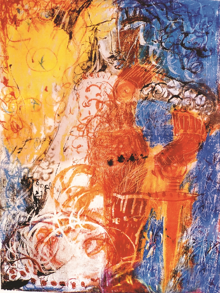 Penthesilea